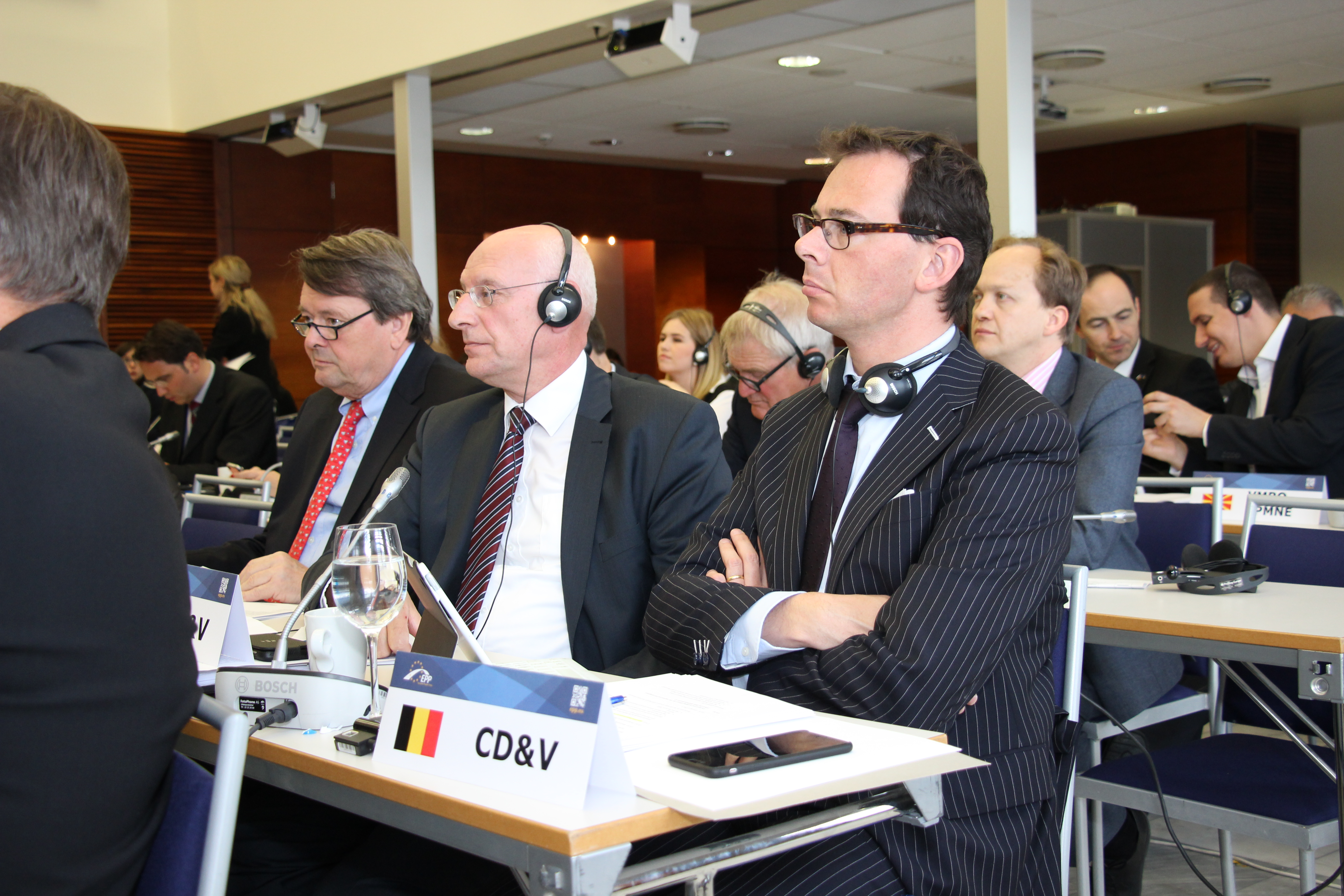 EPP Political Assembly 1-2 June 2015